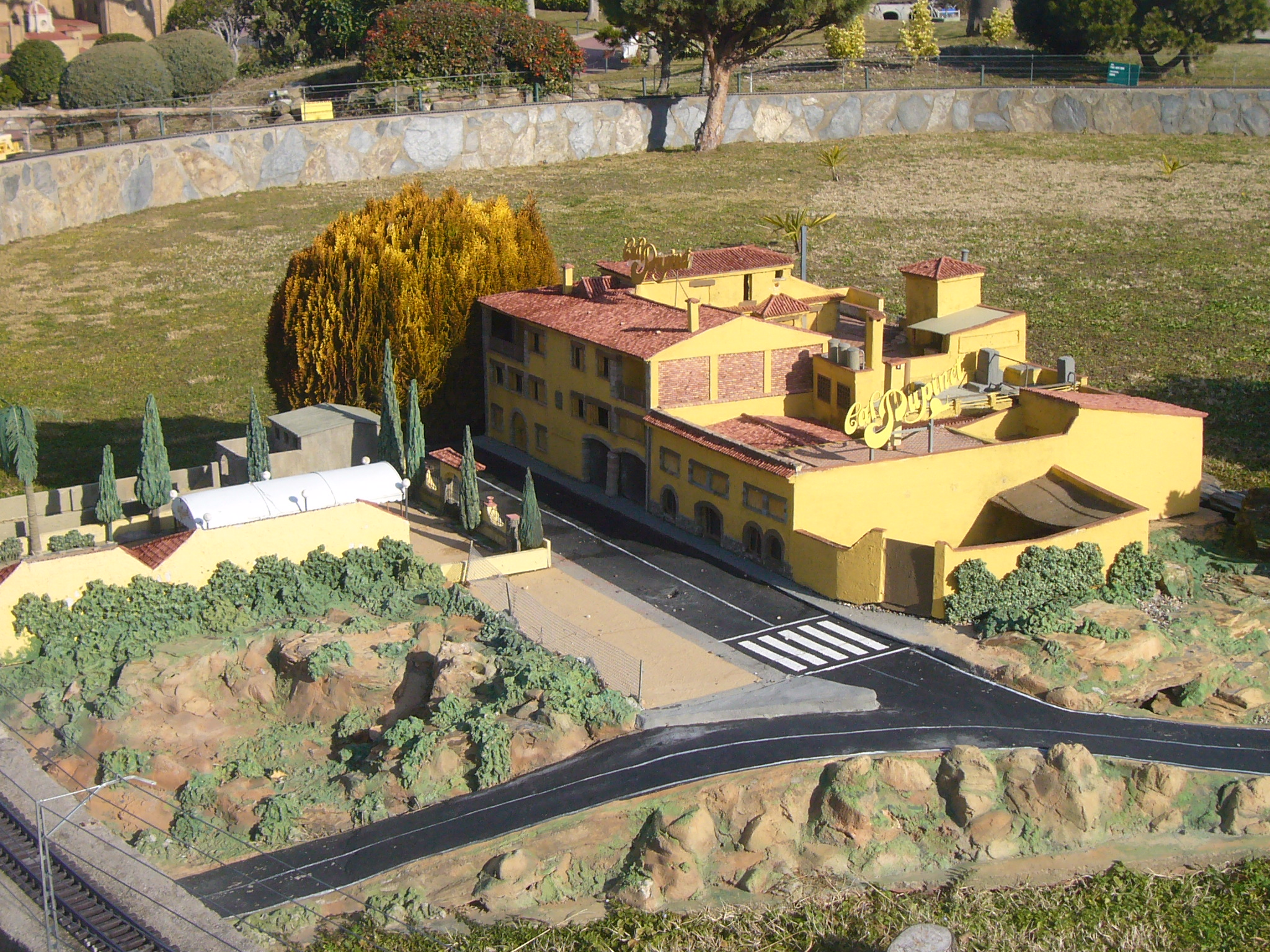 Scale model at the "Catalunya en Miniatura" miniature park : Restaurant Cal Pupinet (Castellbisbal).